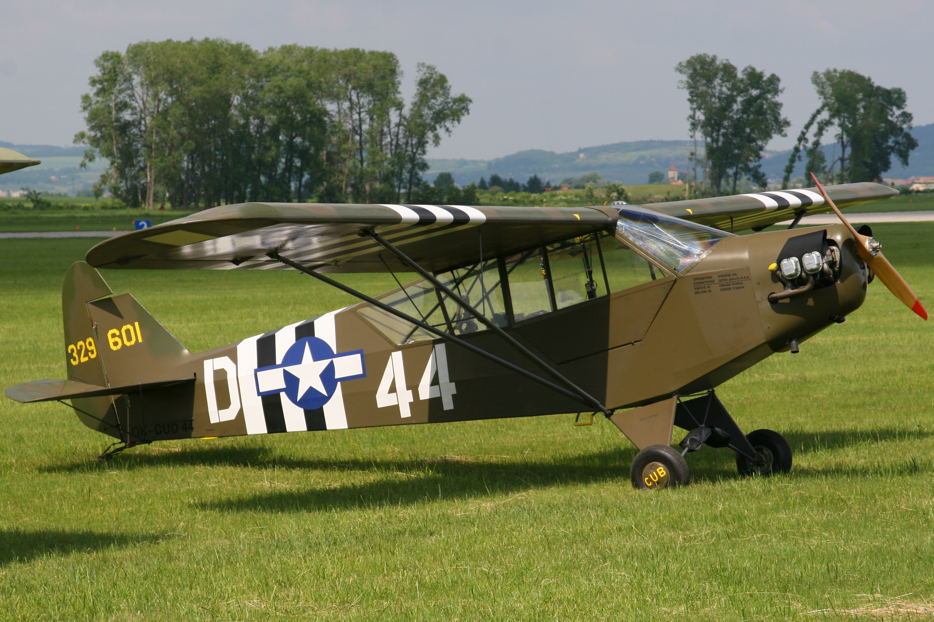 Piper Cub (reg. number OK-CUD 44) at Open Day 2009, AFB Čáslav (LKCV), Chotusice, The Czech Republic